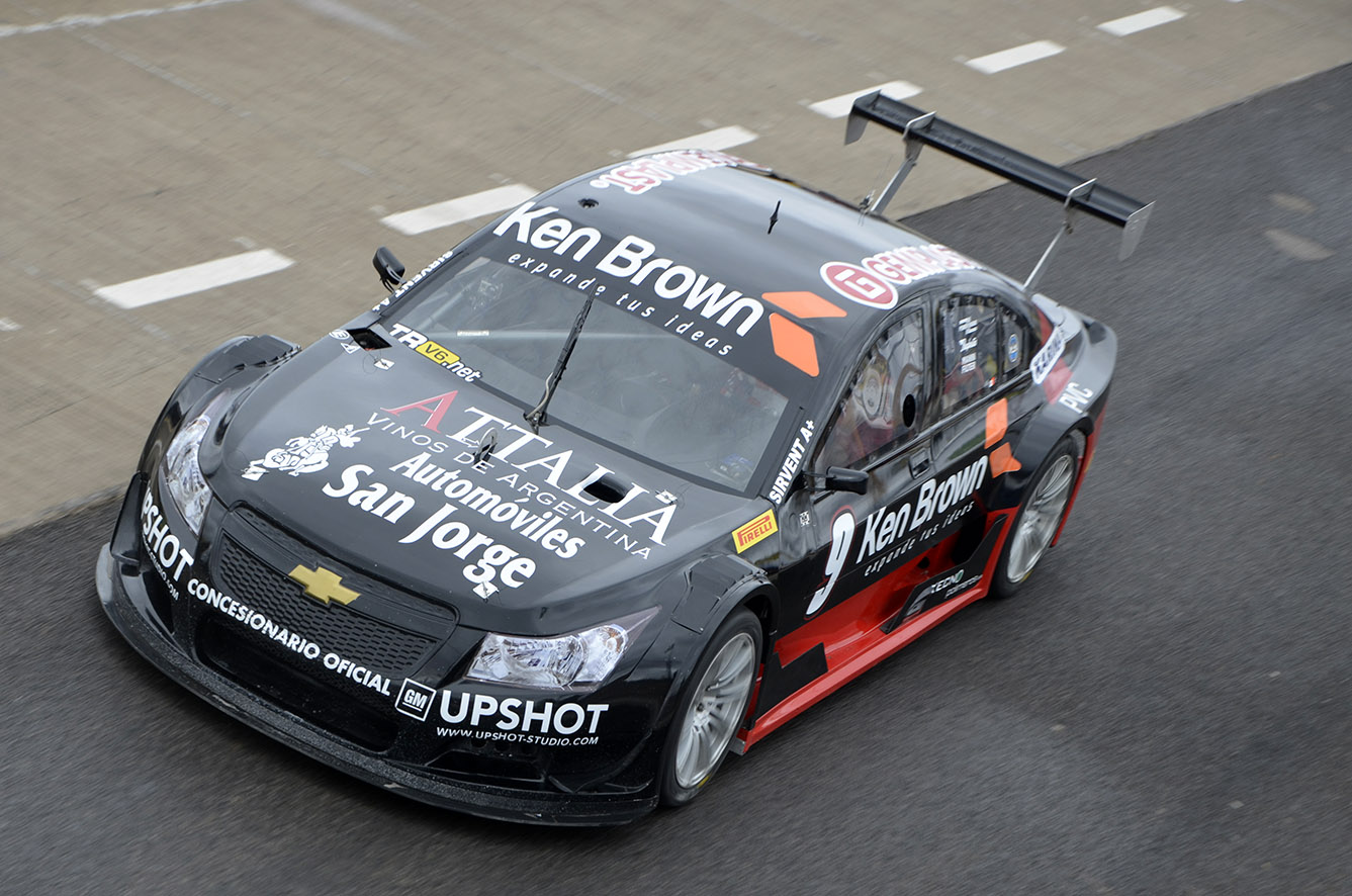 German Sirvent - Chevrolet Cruze #9 - Top Race V6 2013